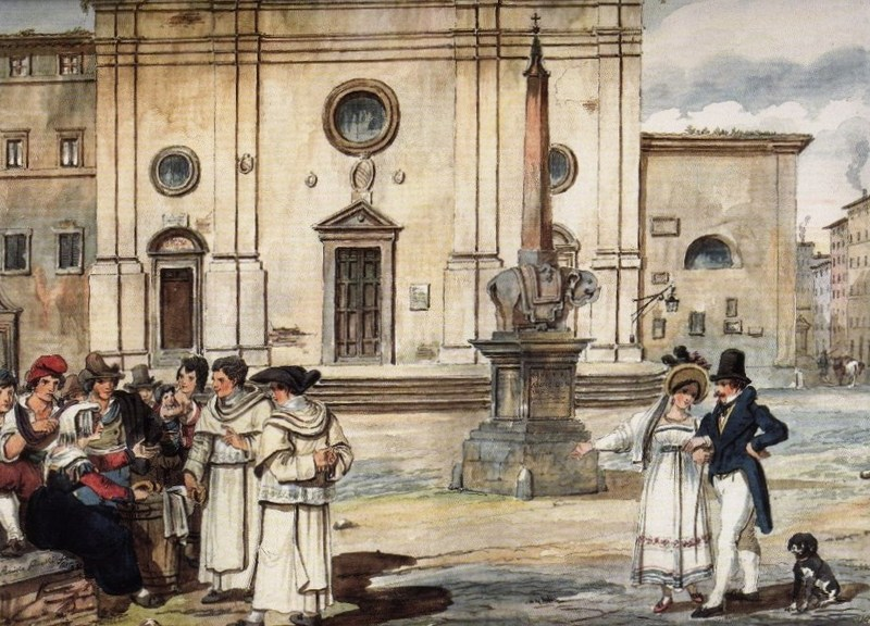 Achille Pinelli (1809-1841) Aquarels, Piazza della Minerva in Rome in 19th century